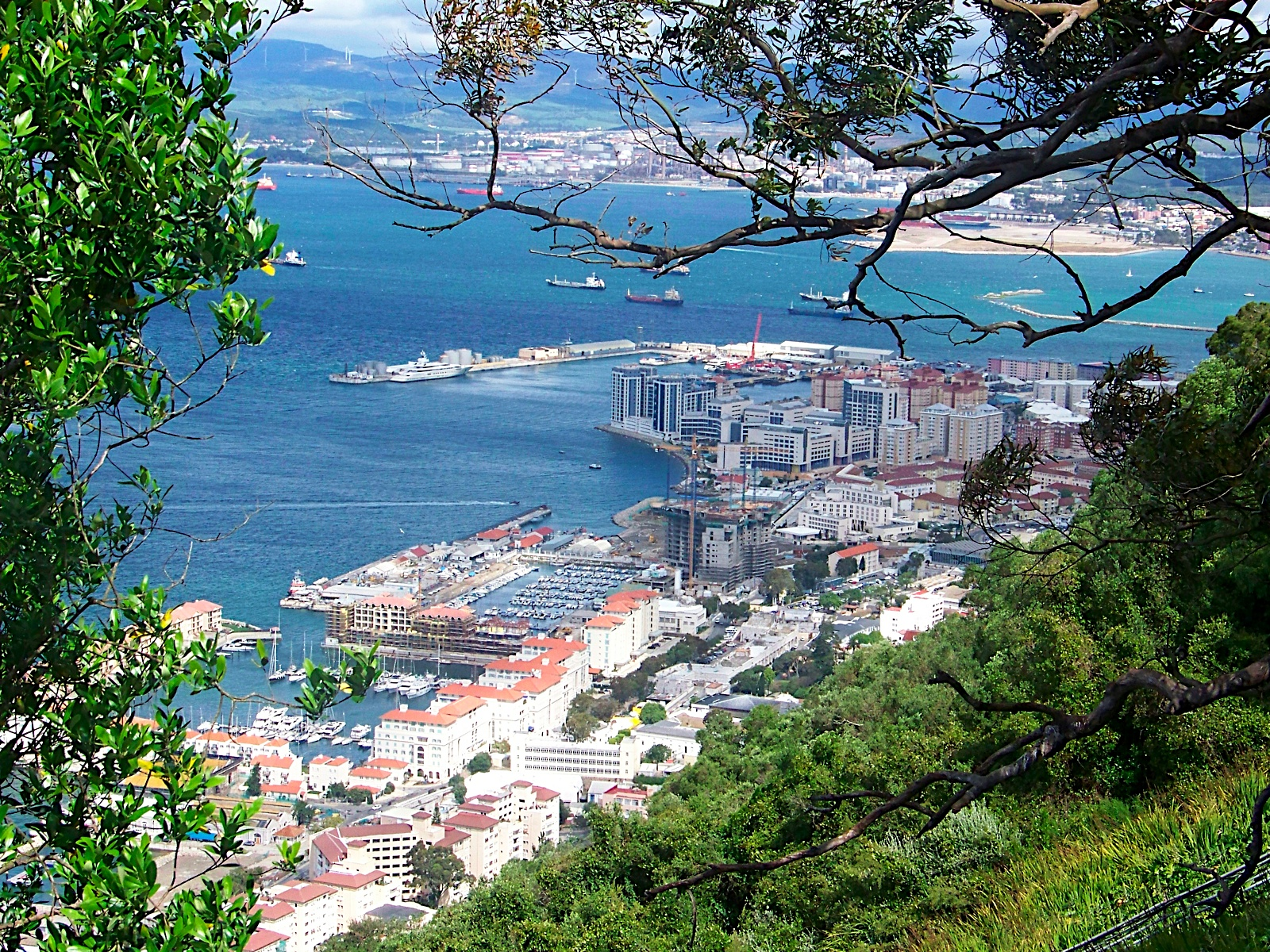 View of the city of Gibraltar from the Rock of Gibraltar.